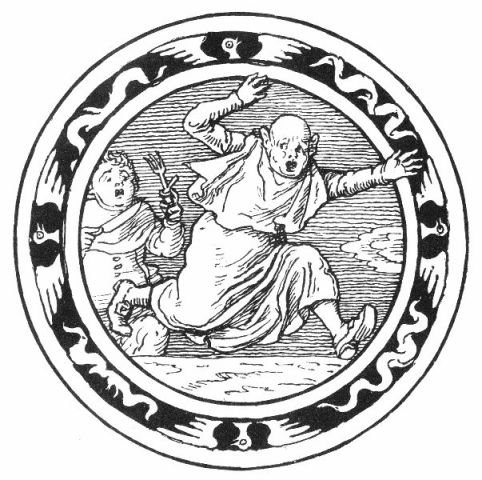 Illustration for 'Clever Gretel' by Walter Crane for 'Grimm's Fairy Tales' c1890